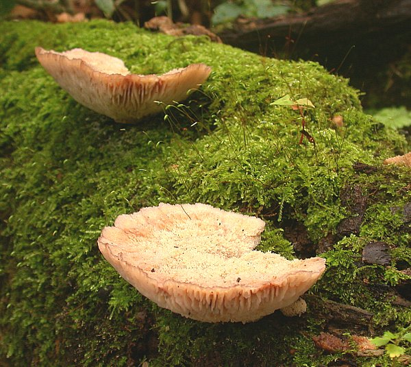 Elmerina holophaea on a wood of Fgaus cremata, at Daisen, Tottori Prefecture.